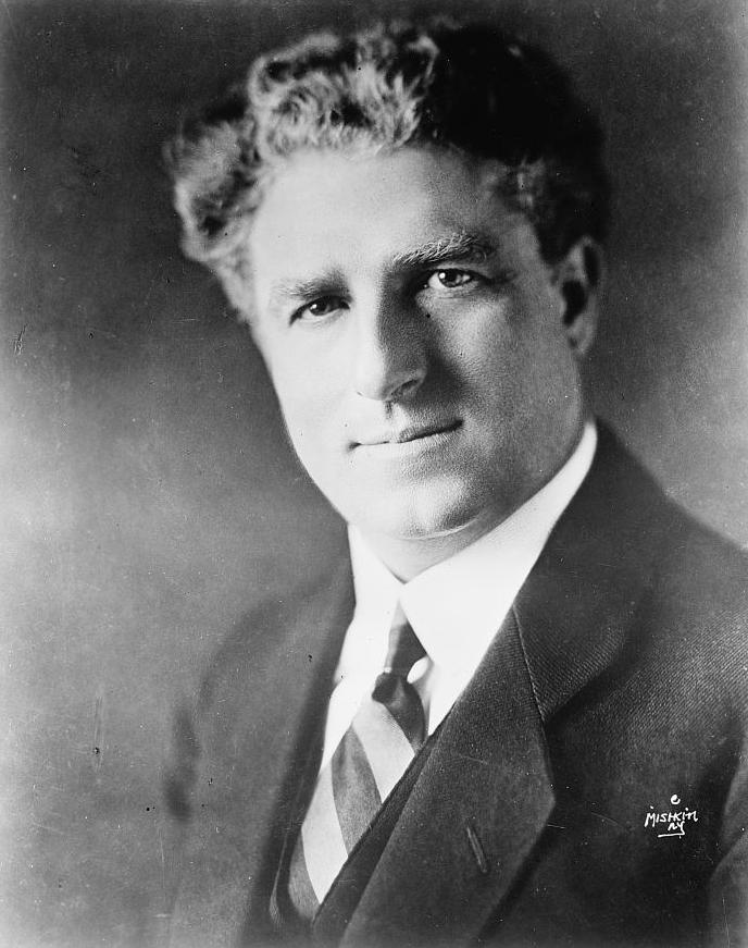 Giovanni Martinelli (1885-1969), italian tenor (original image - see source - cropped)